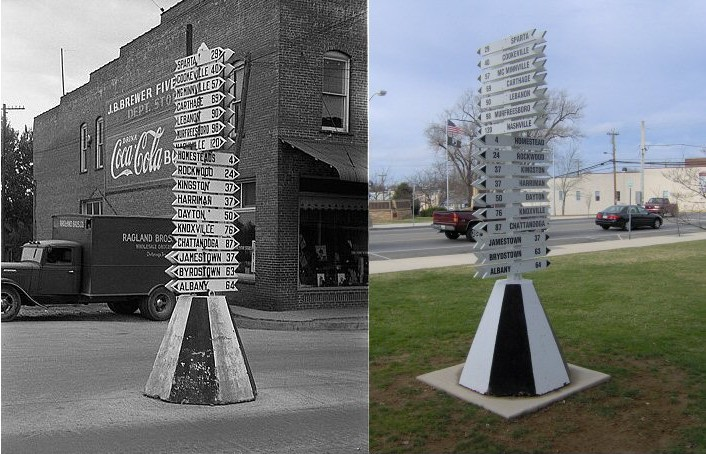 An oft-photographed crossroads sign in Crossville, Tennessee, located in the Southeastern United States. The photograph on the left was taken by photographer Ben Shahn in 1937, and the photograph on right was taken in 2007. The sign is now on the lawn of the Cumberland County Courthouse. The original Shahn photograph is in the public domain as a work of the federal government (Source). Some minor edge cropping has been applied for consistency purposes. See Image:Crossvillesign.jpg for catalogue information.